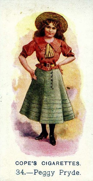 Cope's Cigarettes cigarette card of 1913 depicting Music Hall Artistes - No34 Peggy Pryde